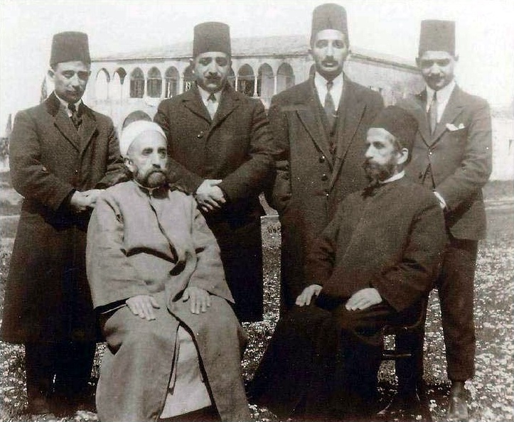 Standing (L to R): The grandsons of Baha’u’llah: Amin Ullah Bahai, Shua Ullah Behai, Mousa Bahai, Salah Bahai. Seated (L to R): Mohammed Ali Bahai and Badi Ullah Bahai, sons of Baha’u’llah and his second wife Mahd-i-‘Ulya.